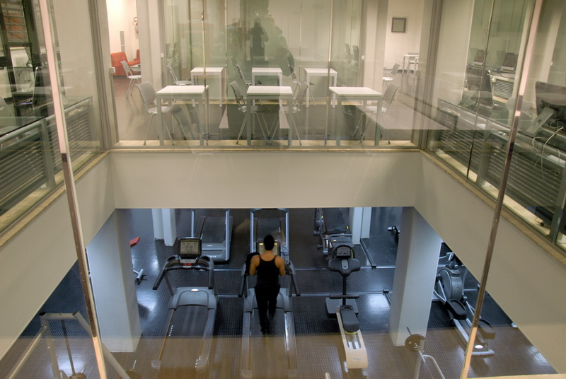 Mediclub at Mediterranea University of Reggio Calabria